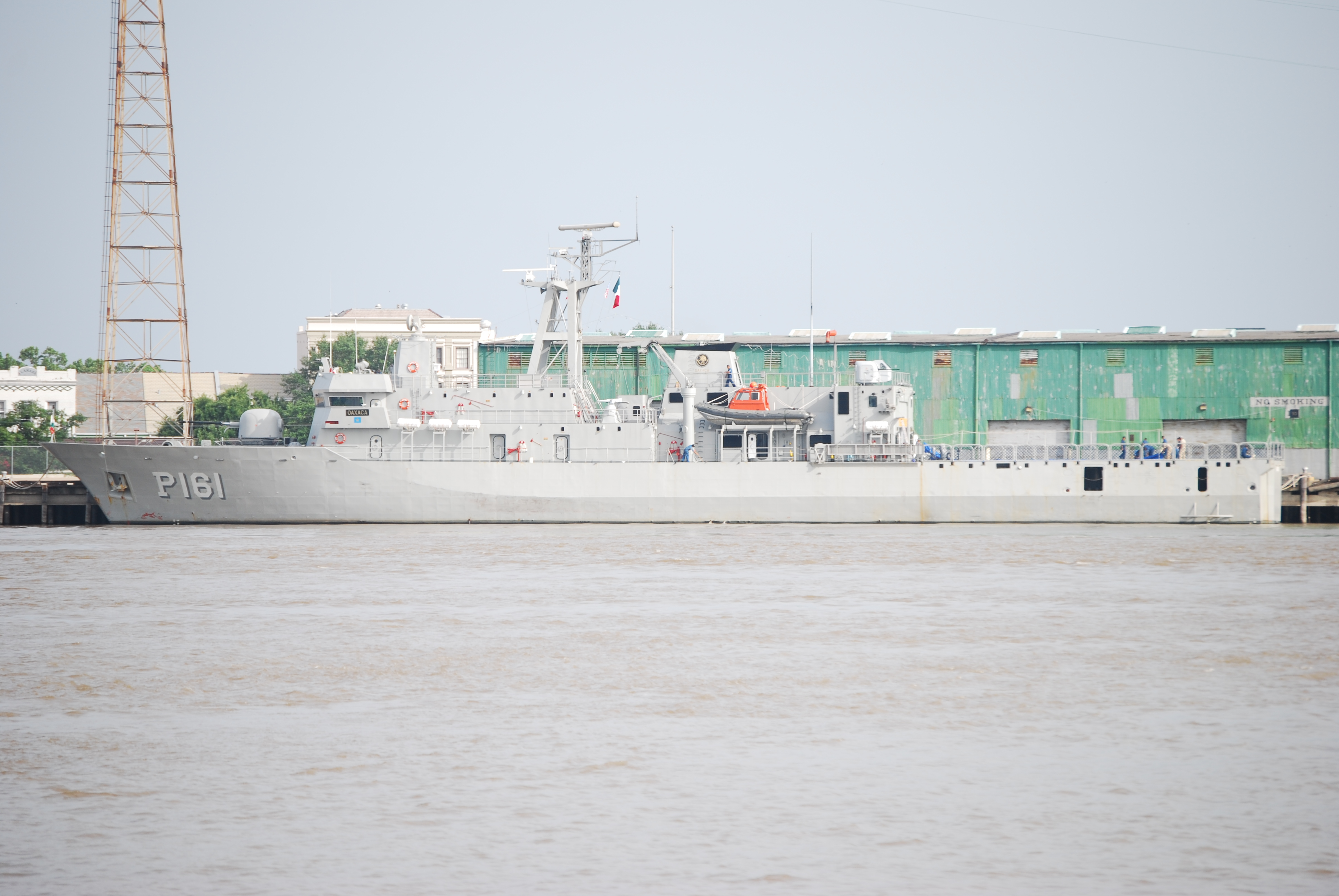 The ARM Oaxaca (P-163), an Oaxaca class offshore patrol ship of the Mexican Navy, photographed on 5 July 2008 in the Port of New Orleans.